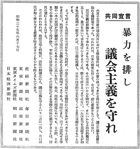 Joint Declaration of the Seven Major Newspapers